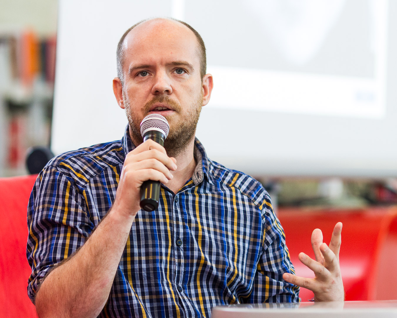 Witold Szabłowski on Authors’ Reading Month 2015, Wrocław, Poland